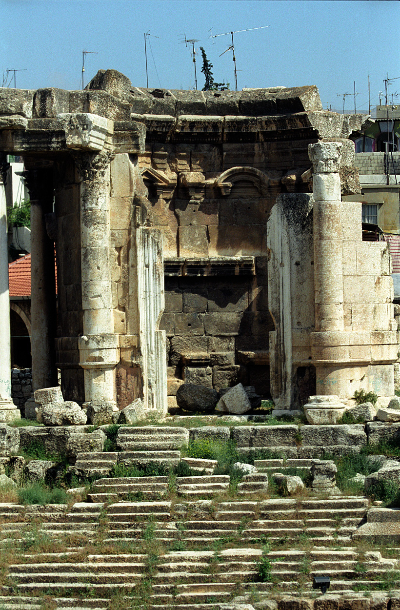 Baalbek, the Wenus Temple